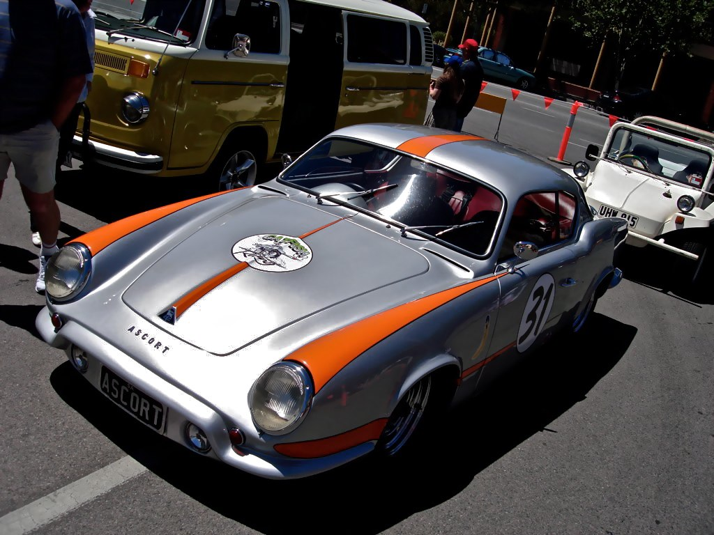 Silver Ascort with orange racing stripes at the 2008 South Australian Volkfest celebrated on Saint Vincent Street, Port Adelaide.